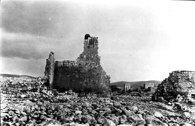 Walls of Dara, photo taken by Gertrude Bell in 1911